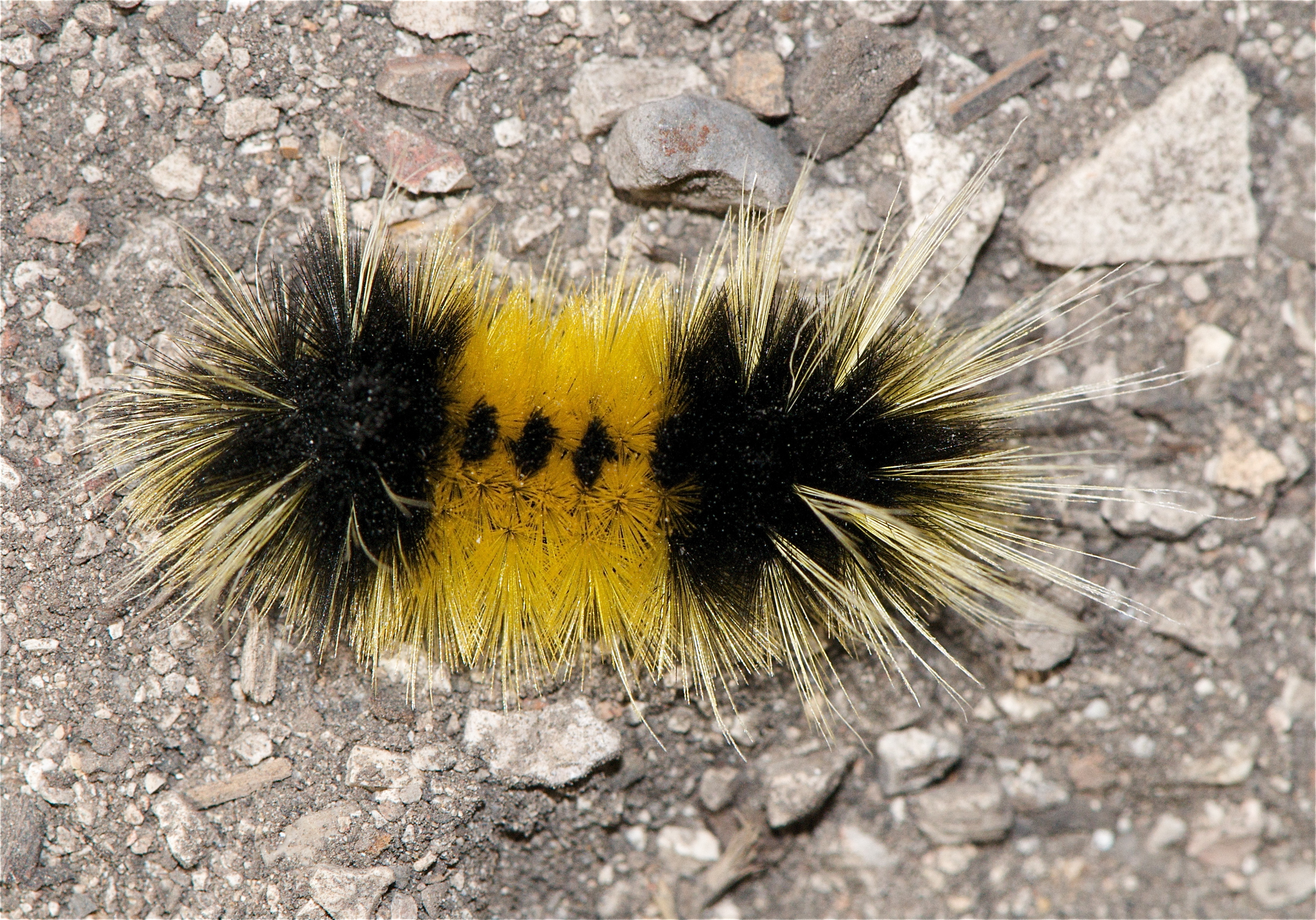 Larva of Lophocampa maculata